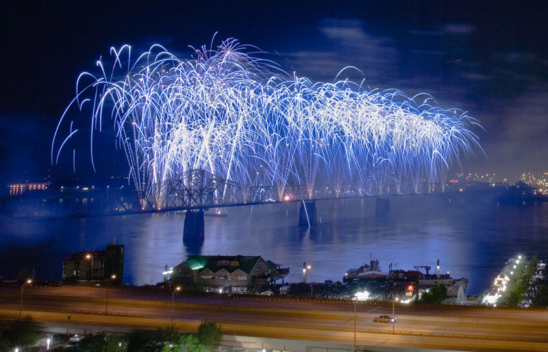 The George Rogers Clark Memorial Bridge during Thunder Over Louisville in Louisville, Kentucky.